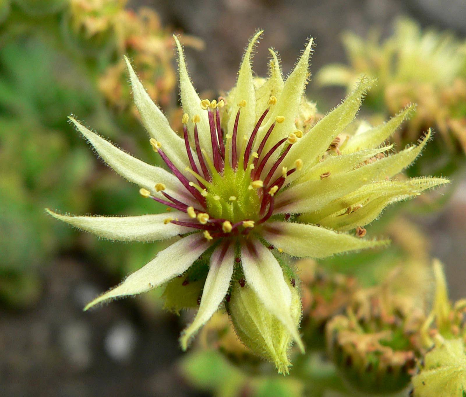 Photo of Sempervivum grandiflorum at the UBC Botanical Garden in Vancouver